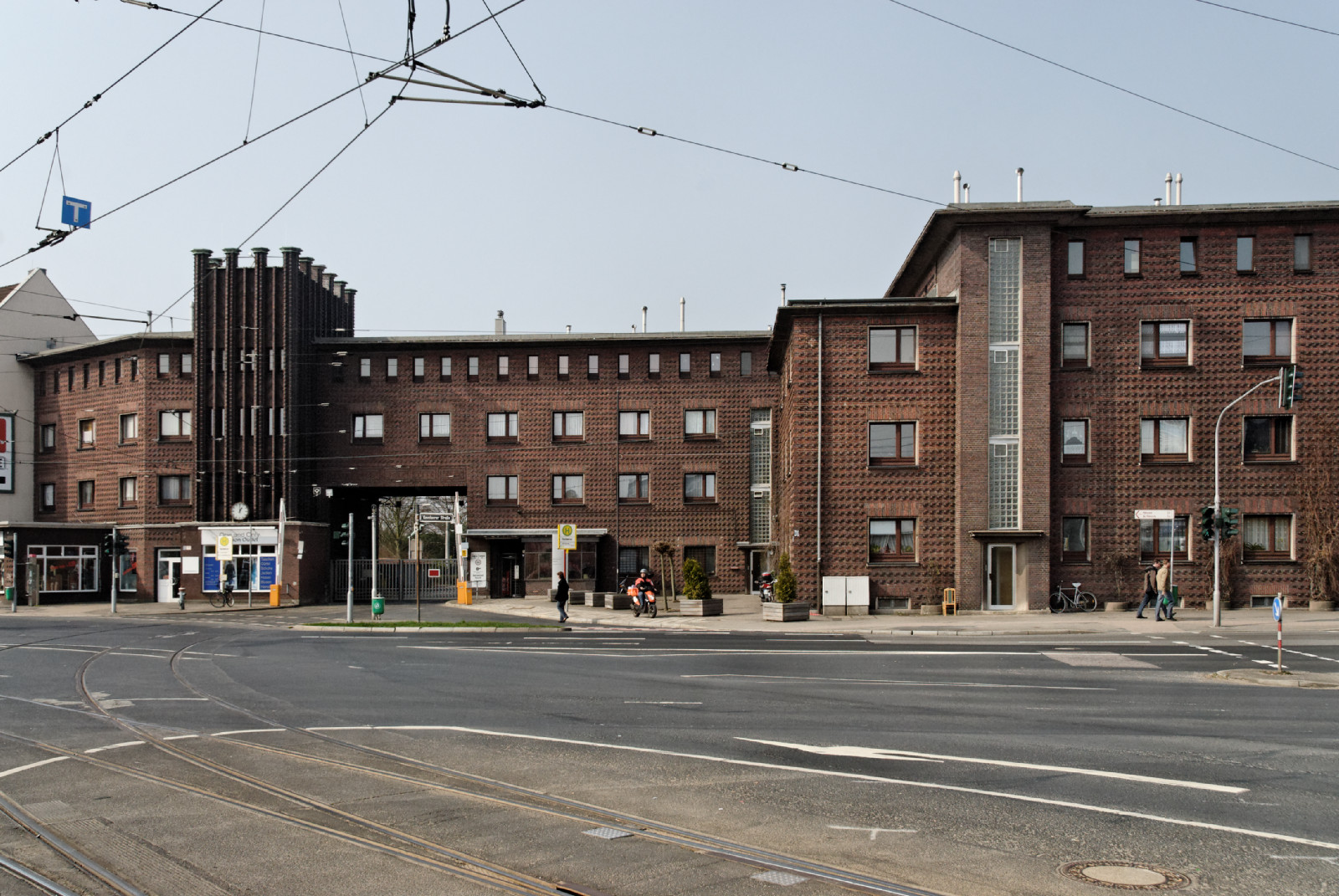 Depot Heerdt in Düsseldorf-Heerdt, Germany